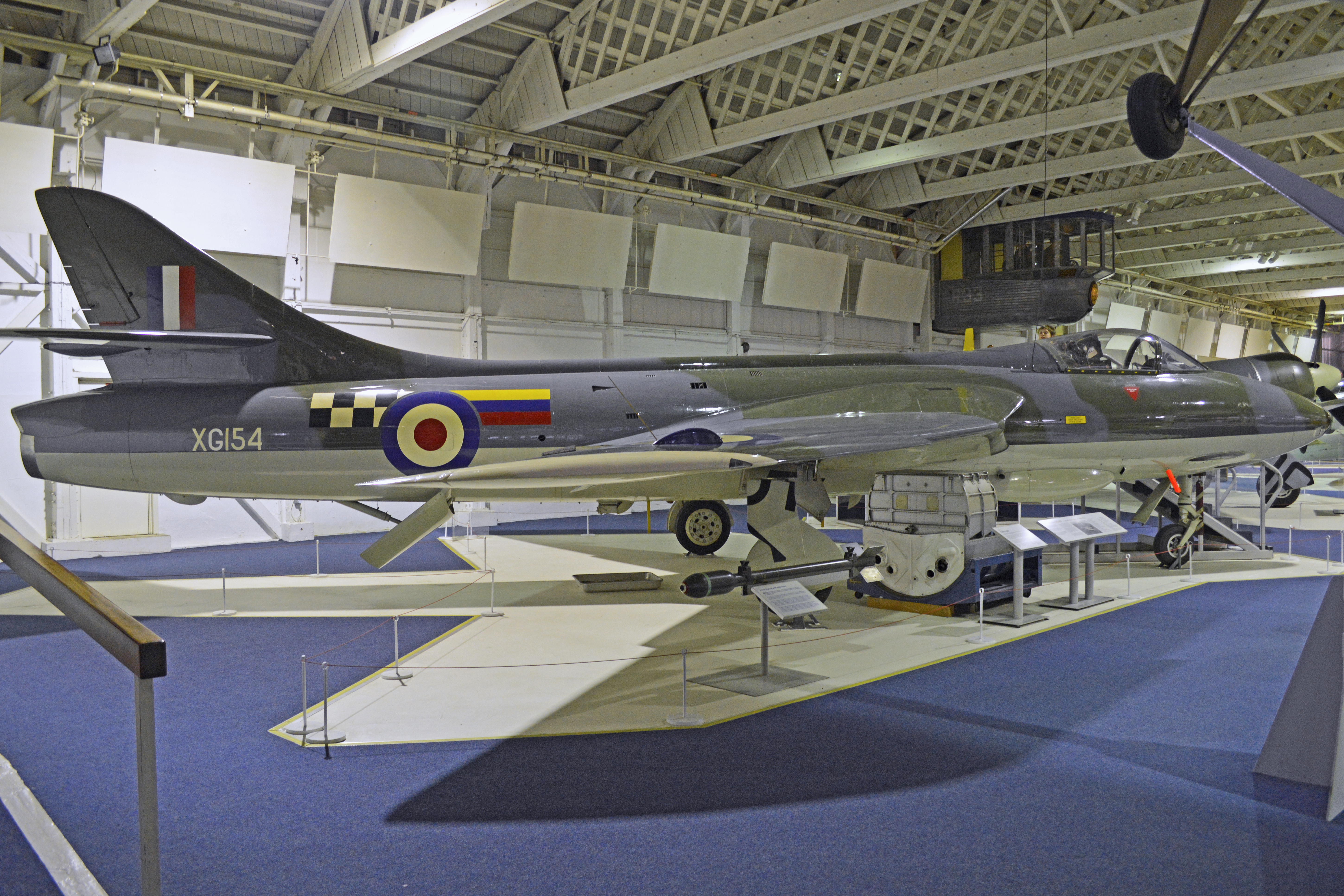 Built 1956 as a Hunter F.6 and served with 66sqn until converted to an FGA.9 in 1959/1960. She next flew with 43sqn, then 8sqn, then in April 1964 the combined 8/43sqn based at Khormaksar, as part of the Aden Strike Wing. She also served with 208sqn at Bahrain before returning to the UK for storage in December 1968. In September 1971 she joined 229OCU at RAF Chivenor in the training role, continuing with 1TWU (Tactical Weapons Unit) at Brawdy from September 1974 until retired in July 1984 and being allocated to the RAF Museum. Repainted in genuine 8/43sqn markings, she remains on display in the Historic Main Hangars, RAF Museum, Hendon, London, UK. 28th May 2016